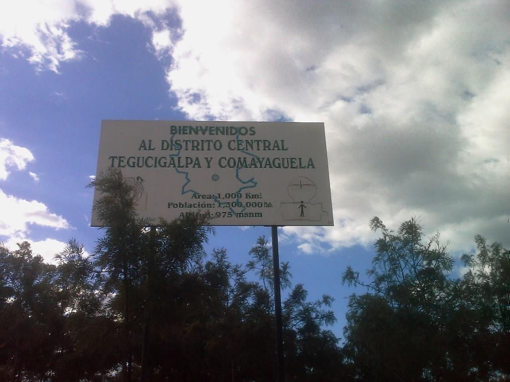 Sign at the Central District municipality limit line. Stating "Welcome to the Central District: Tegucigalpa and Comayagüela. Area: 1000km2, Population: 1.300.000 inhabitants, Altitude: 975msnm".